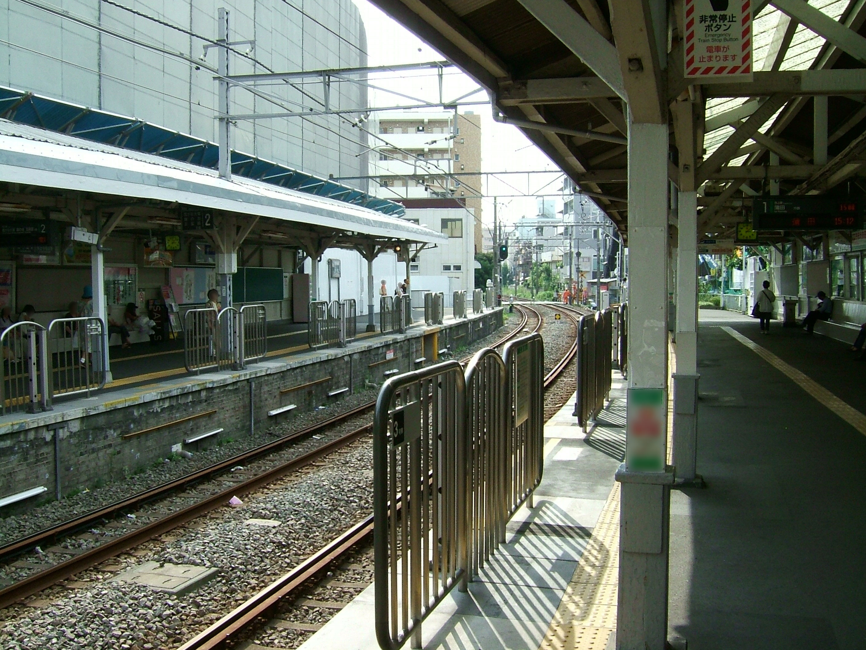 Ikegami Station platform (Tōkyū Ikegami Line)